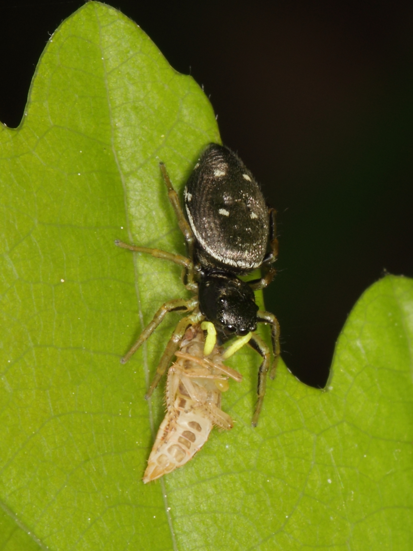 jumping spider Phylum: Arthropoda Subphylum: Chelicerata Class: Arachnida Cuvier, 1812 (arachnids) Subclass: Micrura Infraclass: Megoperculata Order: Araneae CLERK, 1757 (spiders, Webspinnen) Suborder: Araneomorphae Superfamily: Salticoidea Family: Salticidae BLACKWALL, 1841 (jumping spiders, Springspinnen) Genus: Heliophanus C.L. KOCH, 1833 (Sonnenspringspinnen) Heliophanus cupreus WALCKENAER 1802 (Kupfrige Sonnenspringspinne), ♀ taxonomical info: more info (German): und: plant hopper Phylum: Arthropoda LATREILLE, 1829 (arthropods, Gliederfüßer) Subphylum: Hexapoda BLAINVILLE, 1816 Class: Insecta LINNAEUS, 1758 (insects, Insekten) Subclass: Pterygota (Fluginsekten) Infraclass: Neoptera MARTYNOV, 1923 Order: Hemiptera (true bugs, Schnabelkerfe) Suborder: Auchenorrhyncha Infraorder: Cicadomorpha (Rundkopfzikaden) Superfamily: Membracoidea Family: Cicadellidae LATREILLE, 1802 (leafhoppers, Kleinzikaden) Germany, Brandenburg, vic. Königs-Wusterhausen: Senzig - Forst Dubrow, 15.05.2013 IMG_3660